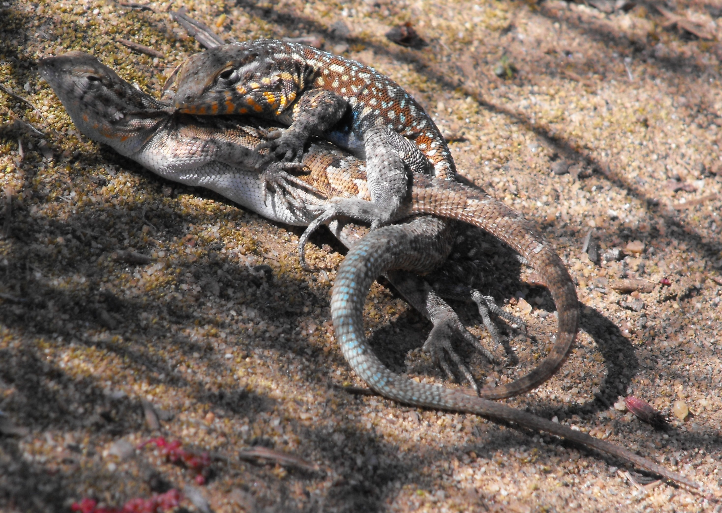 Uta stansburiana mating. Taken on the Parry Grove Trail at Torrey Pines State Reserve, San Diego, California, USA.